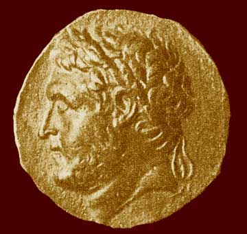 Nabis' coin. Sparta.